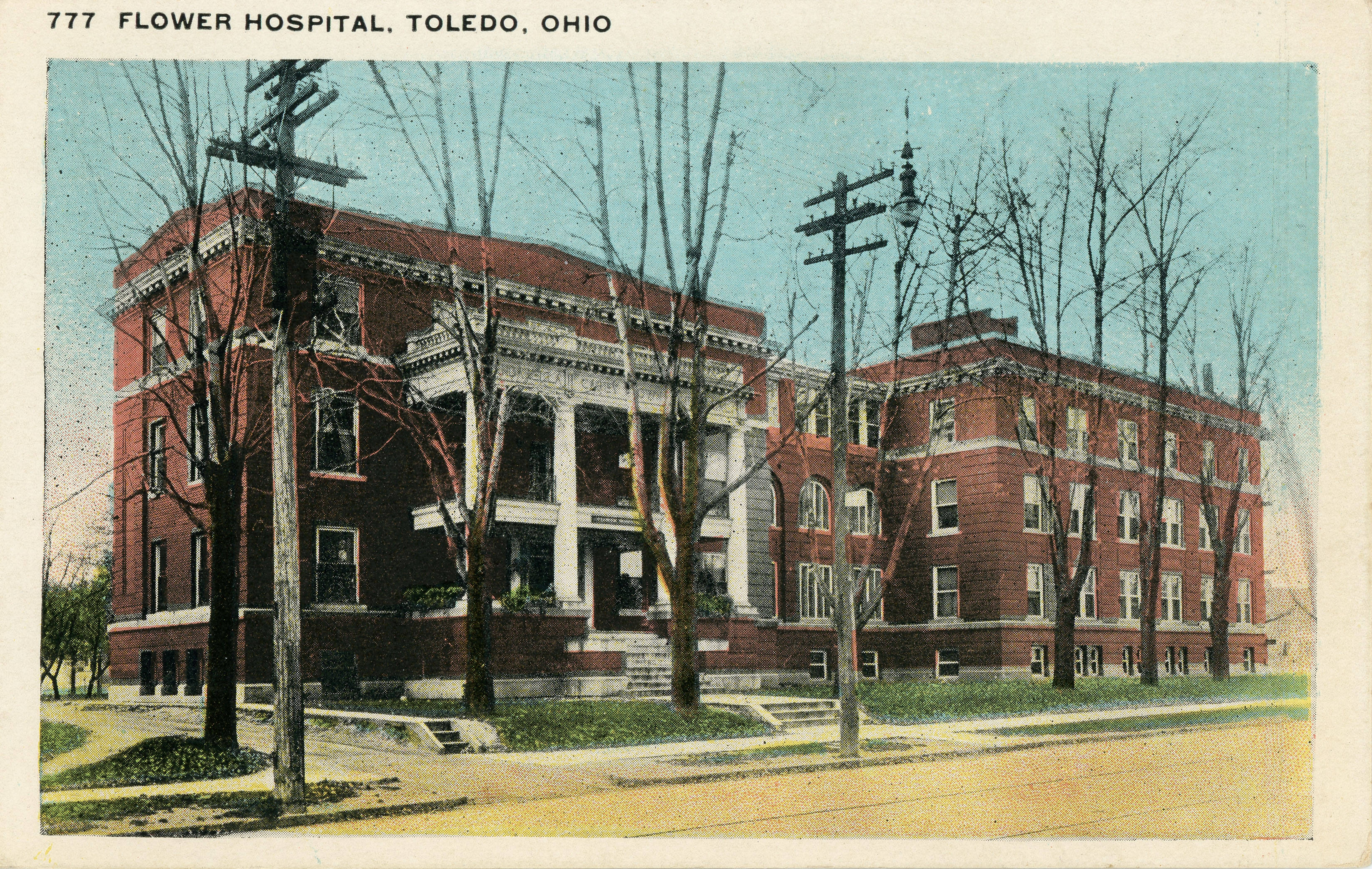 A postcard from the Ken Levin Toledo Postcard Collection, donated by Toledo resident, Ken Levin. The collection contains picture postcards about the Toledo area. Mr. Levin’s collection was published by the Toledo Blade in a book entitled “You Will Do Better in Toledo: From Frogtown to Glass City”, edited by Sandy and John R. Husman.